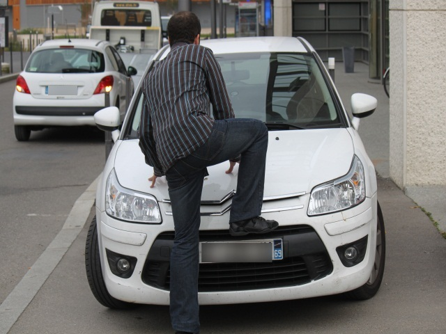 Carwalking